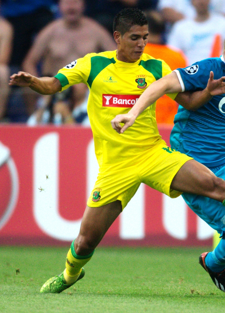 Paolo Hurtado